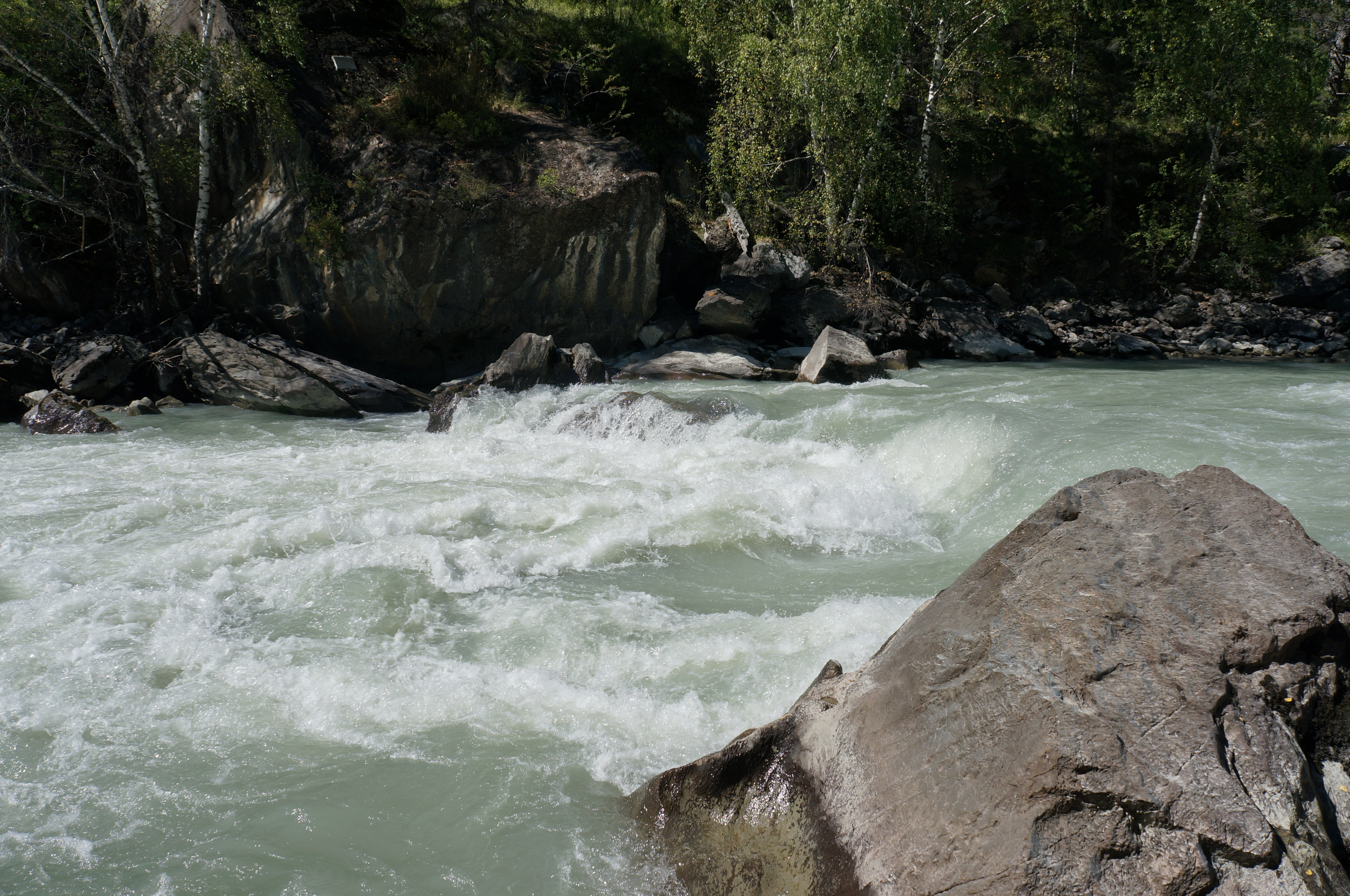 The Begemot rapid on Chuya River, 5th category, 2 stage (Altai Republic, Russia, August 2014)